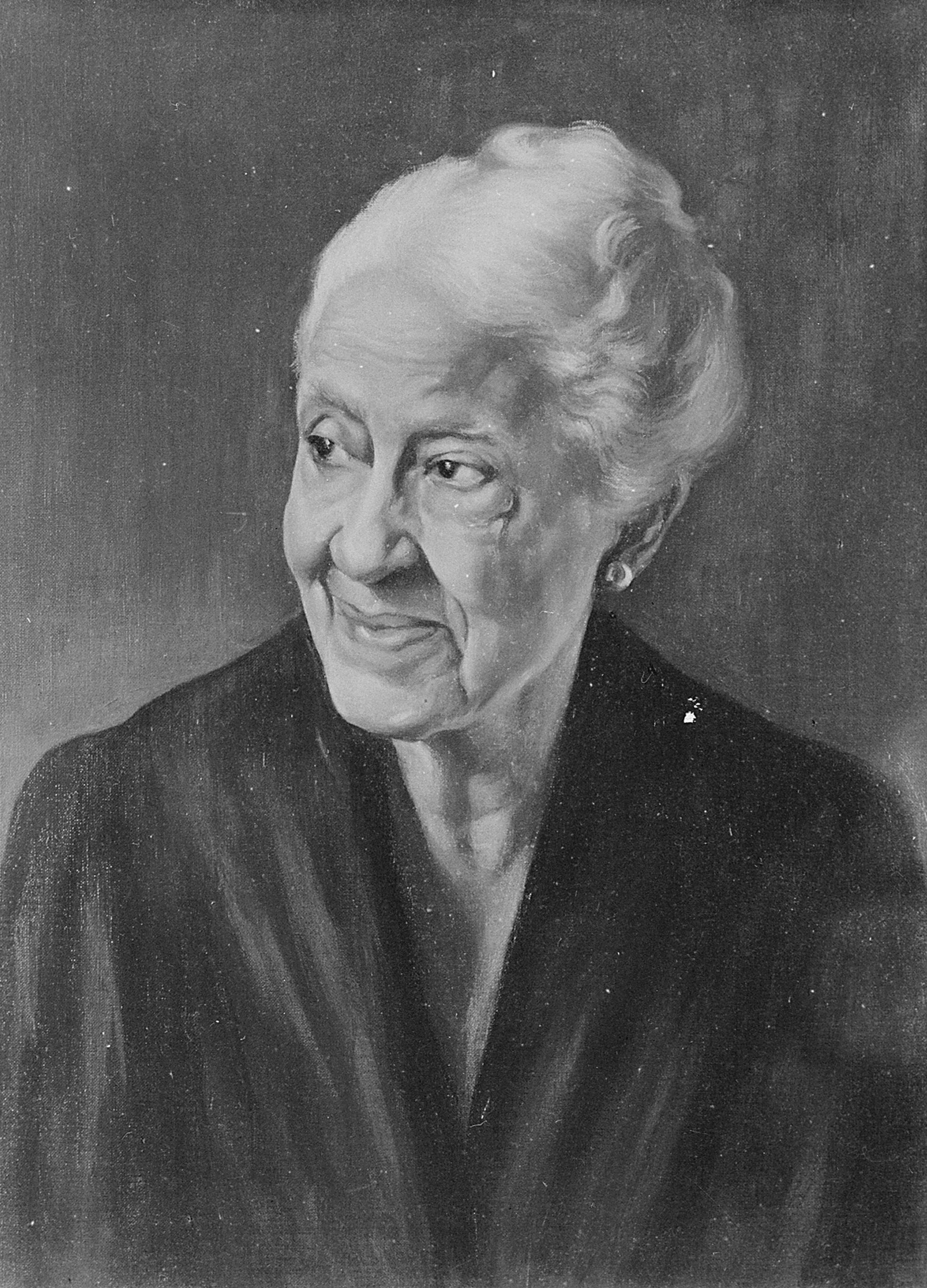 General notes: Painting